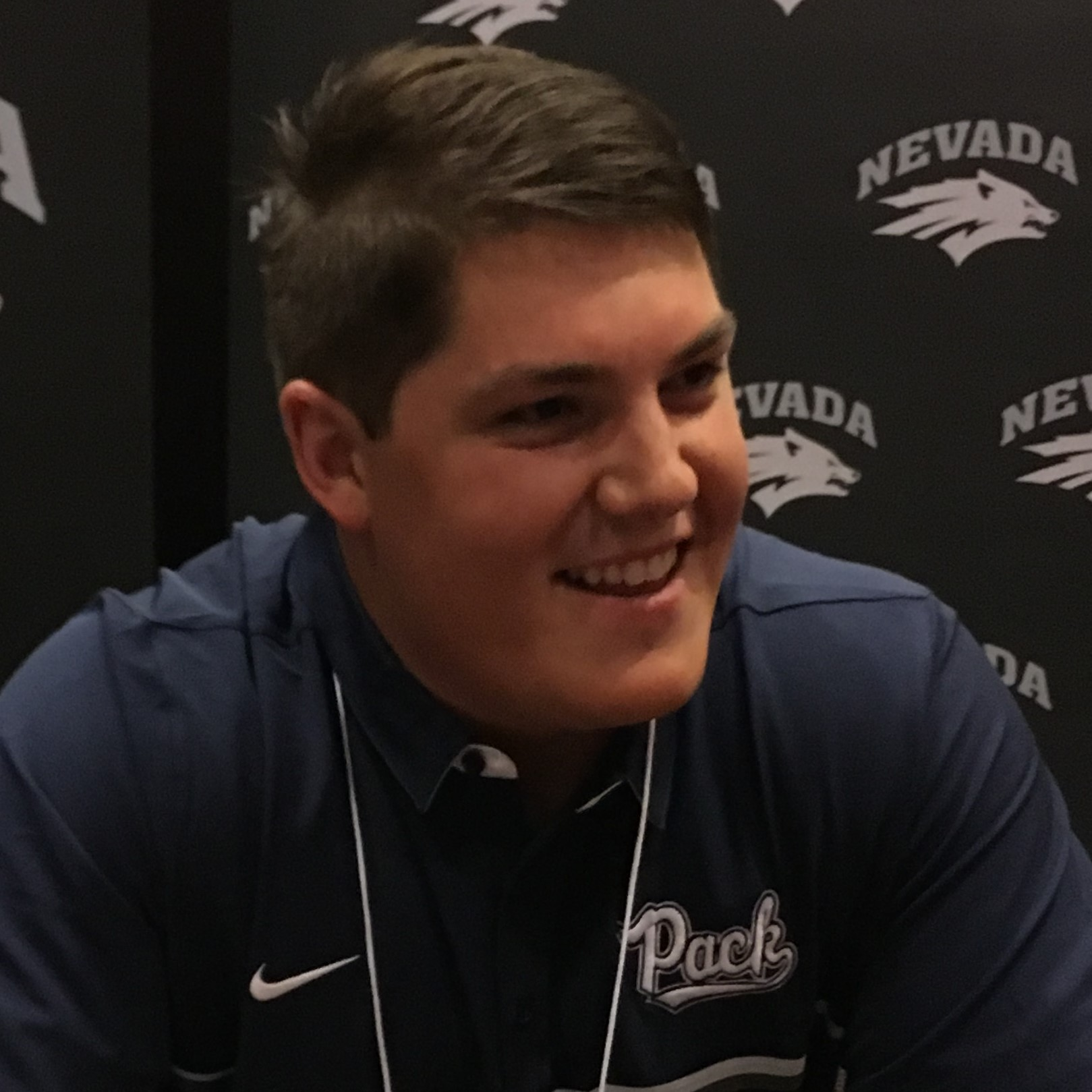 Austin Corbett, offensive tackle of Nevada Wolf Pack football team, at the 2017 Mountain West Conference Media Days in the The Cosmopolitan in Las Vegas.